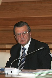 Viktor Zubkov